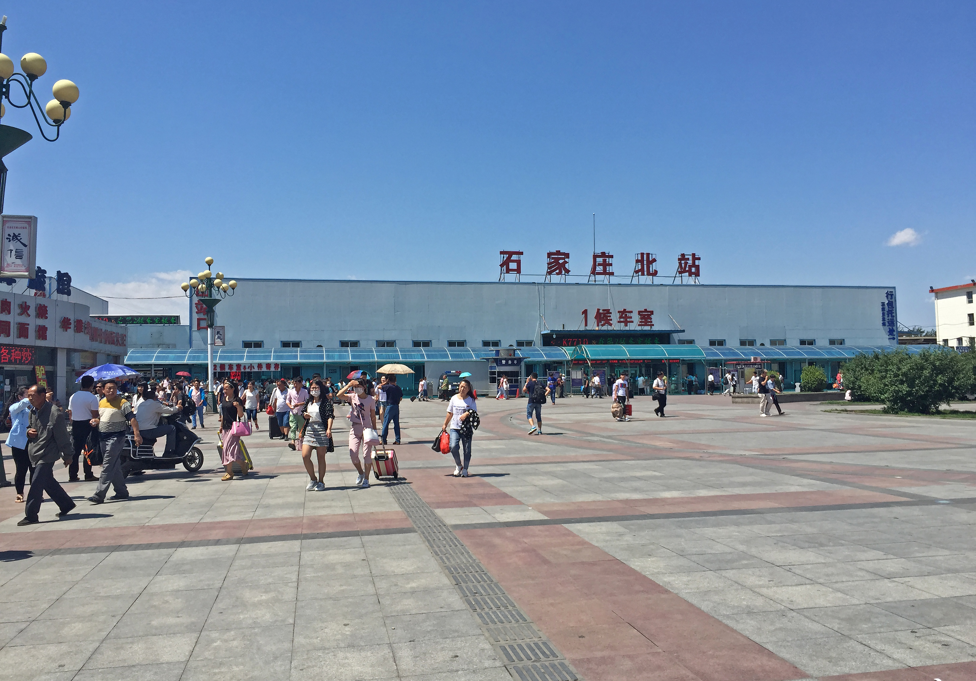 The waiting rooms are all prefabricated buildings, so we call this station "Prefab North" (板房北). Off to Hydro-curtain Cave!